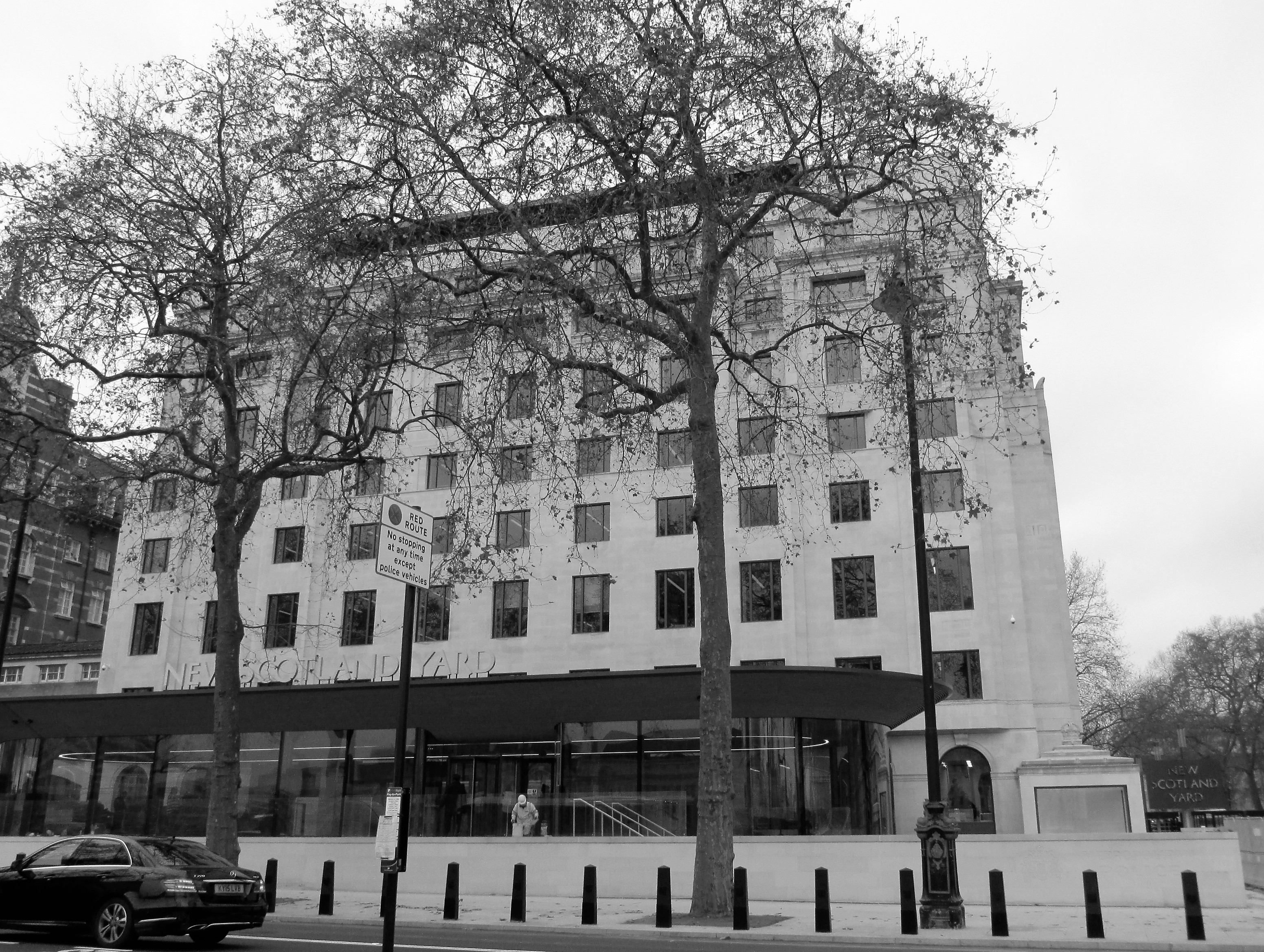 Curtis Green Building in 2016